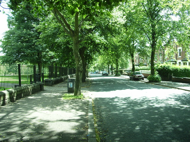 Harehills Avenue, Chapeltown. Centrepiece of the Harehills Grove Estate when it was laid out from 1886